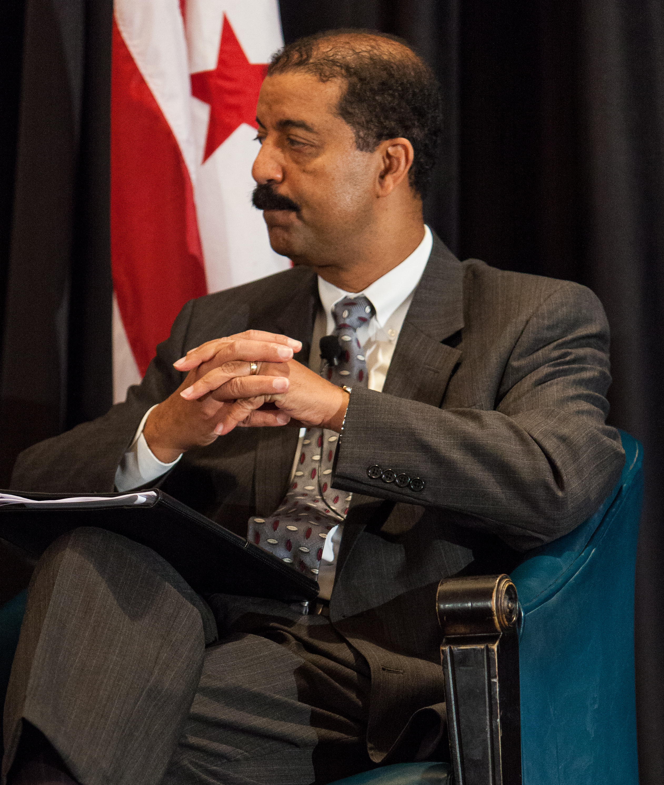 Chief Judge, District of Columbia Court of Appeals - The Role of the State Supreme Court Justice in Transforming the Judiciary